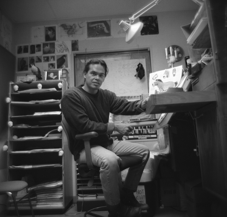 This is a photo of animator Pres Romanillos at his drawing board during production of Disney's "Mulan", circa 1996.